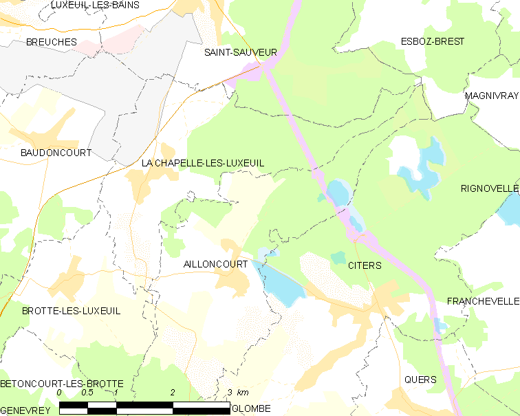 Map of French municipality